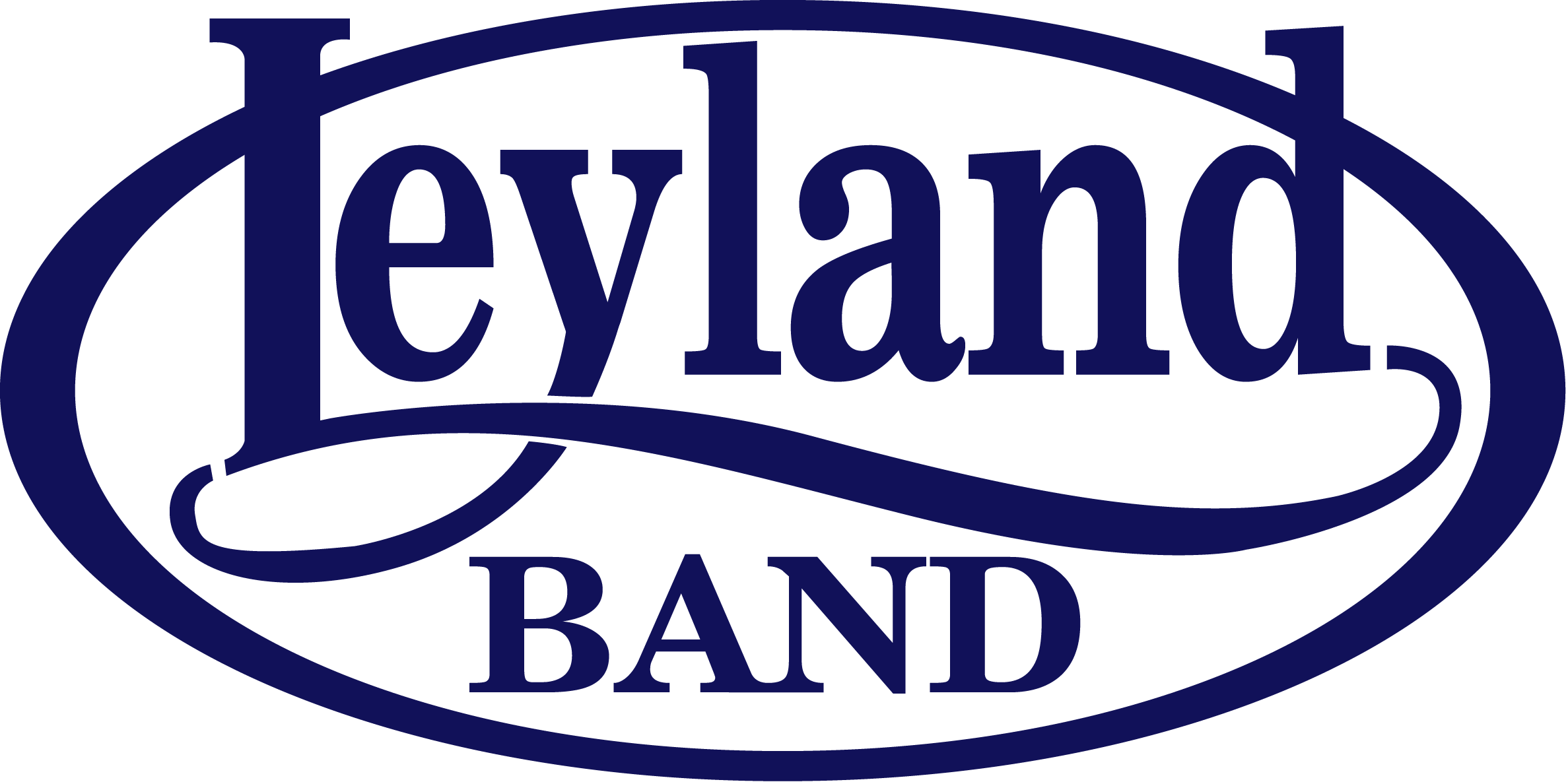 Leyland Band Logo